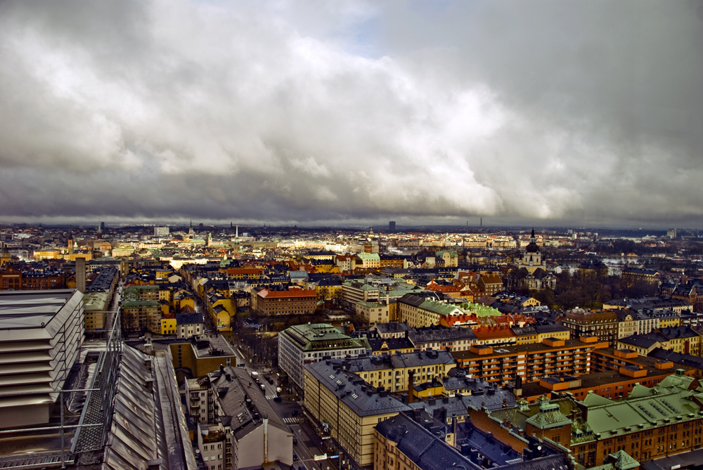 View from the skybar at floor 26 of "Skrapan" in Stockholm.